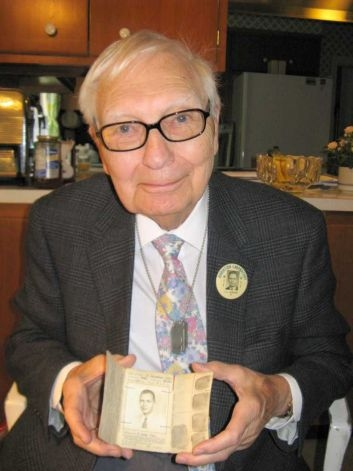 Lee L. Davenport, US physicist and radar pioneer. Davenport worked at MIT's Radiation Laboratory during World War II, and he directed deployment of the SCR-584 radar system.